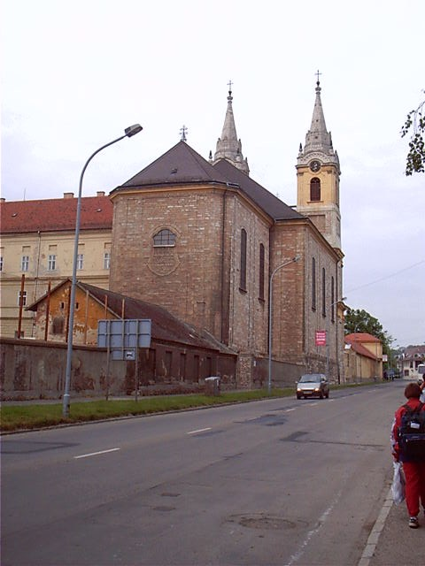 Zirc, the Köztársaság út (Republic street) behind the Zirc Abbey, part of the national main road no. 82 This is a photo of a monument in Hungary. Identifier: 10747